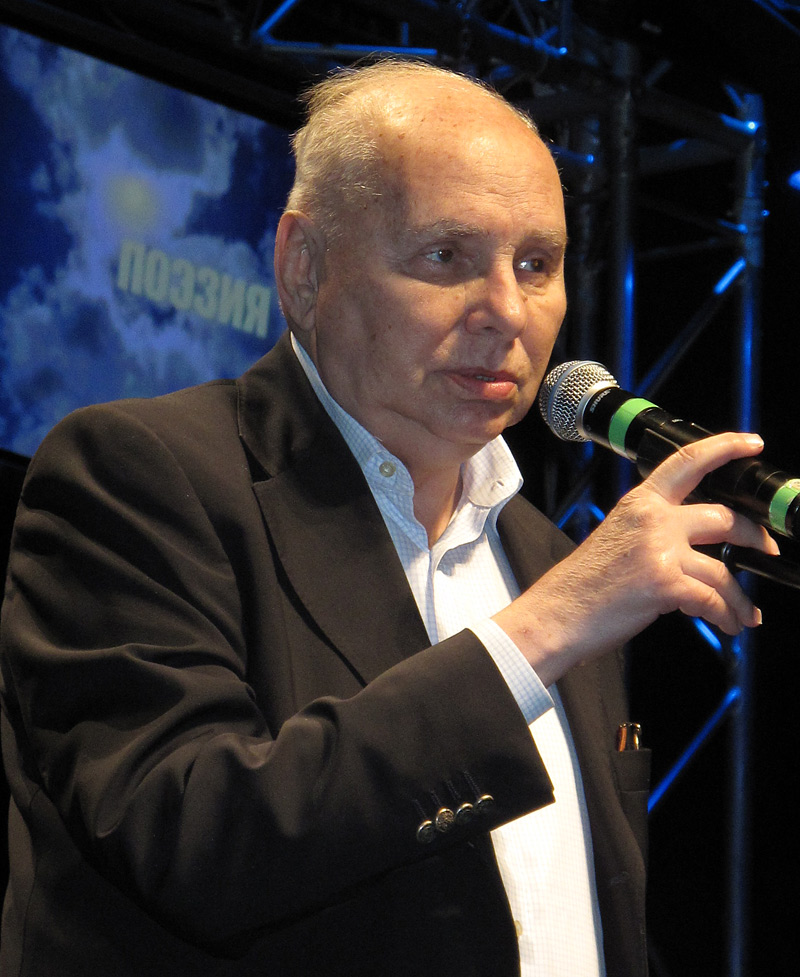 Russian TV presenter Vitaly Vulf